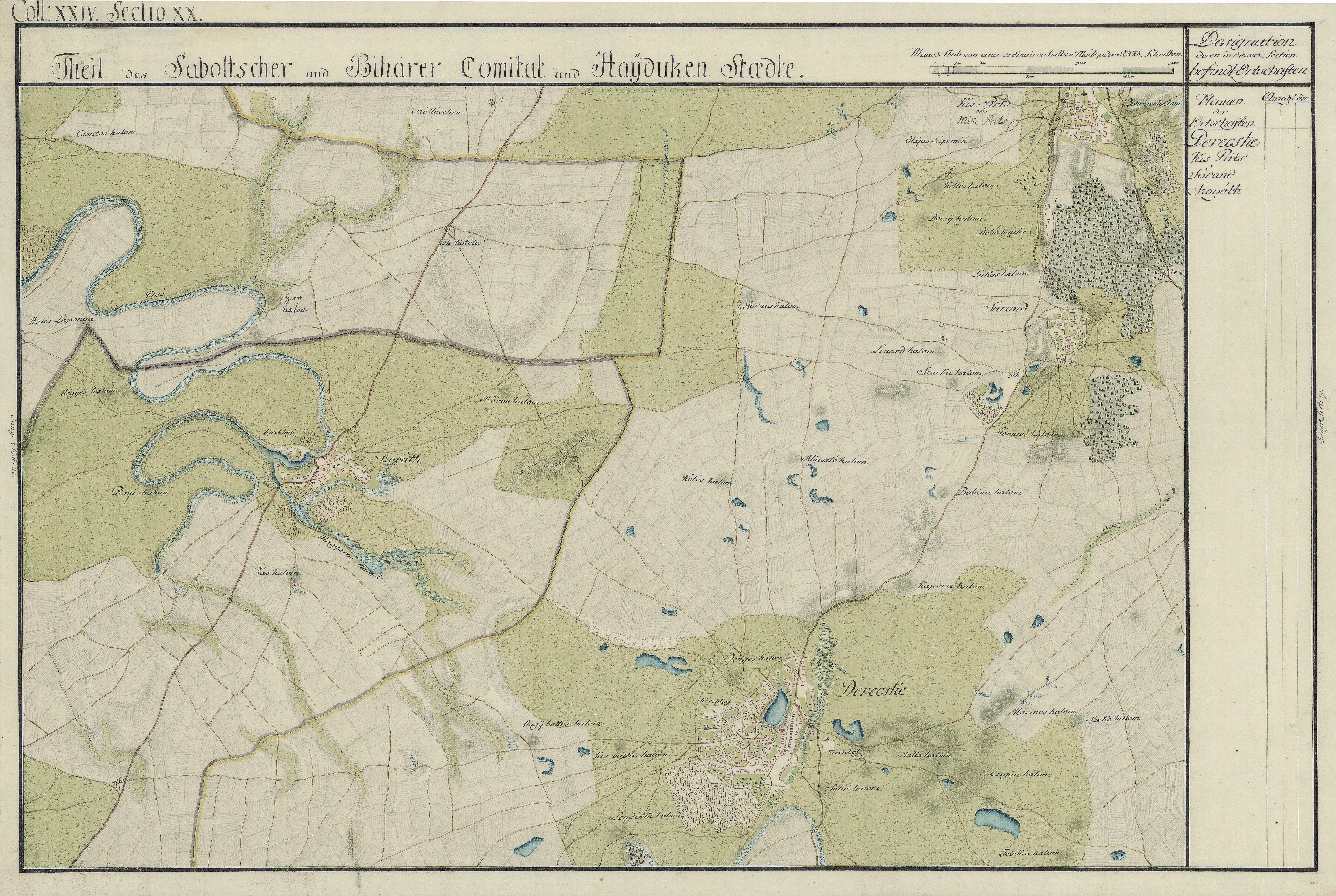 Kingdom of Hungary, 1782-85. Josephinische Landesaufnahme pg.24-20. Counties shown on the map: 1. Bihar County 2. Hyduken County 3. Szabolcs County